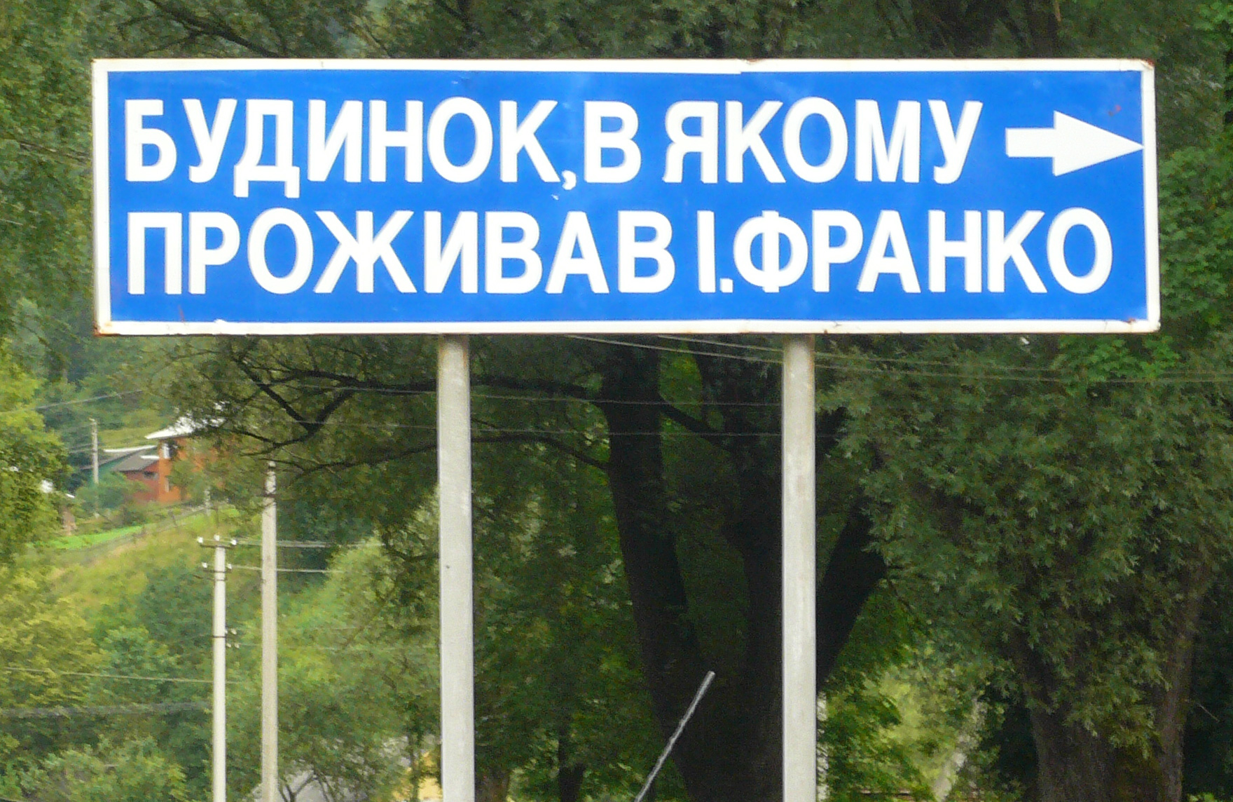 Ivan Franko Museum near Verkhovyna, in Krivorivnia village.